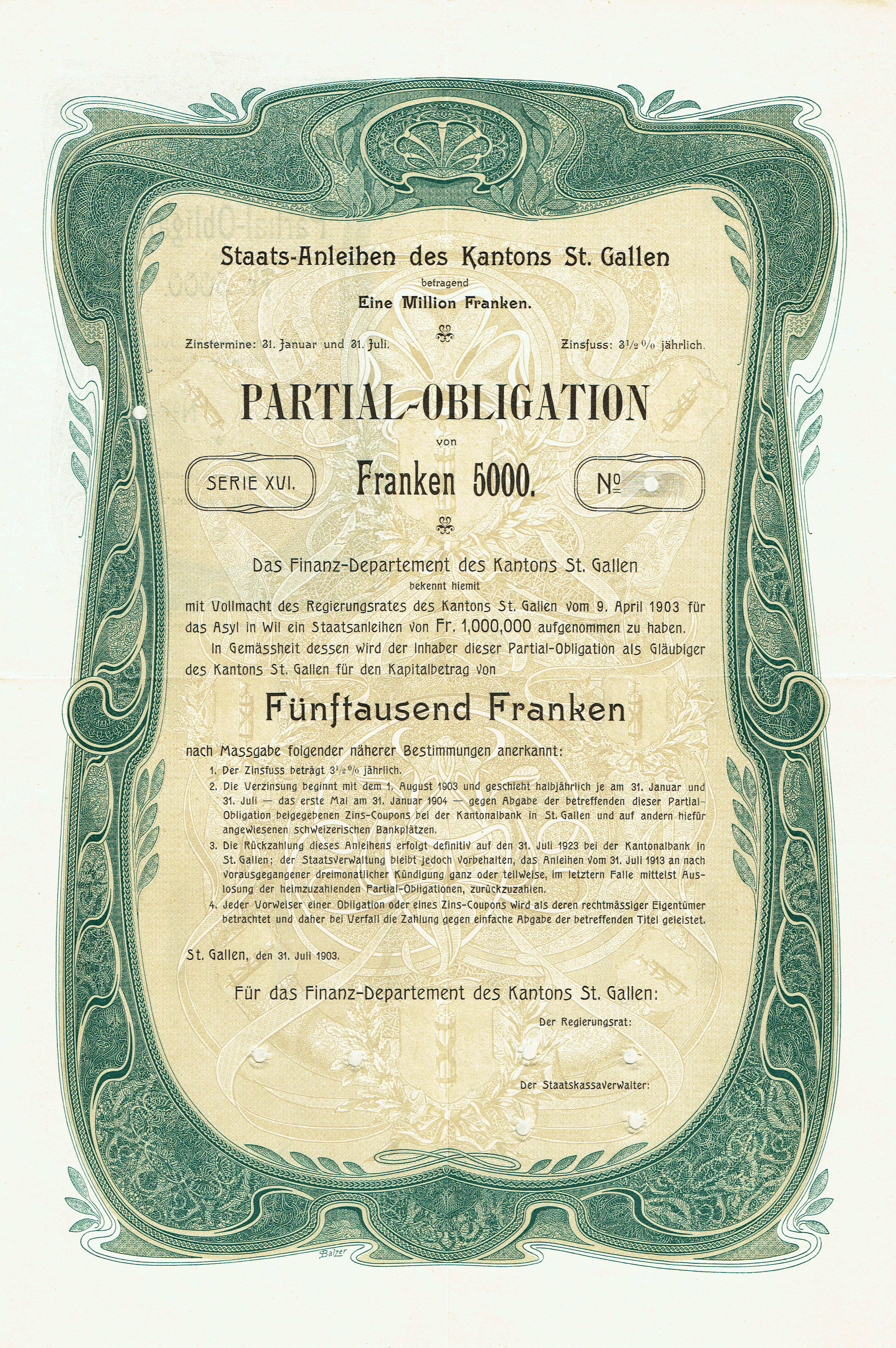 Bond of the Canton of St. Gallen, issued 31. July 1903